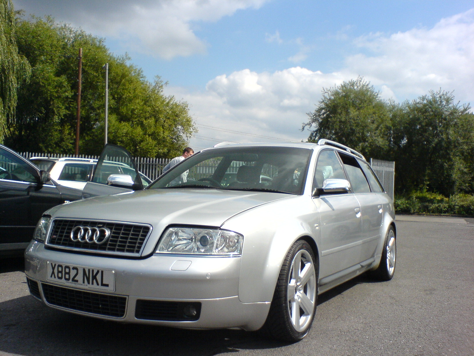 Audi S6, 01 47k's that I checked out today